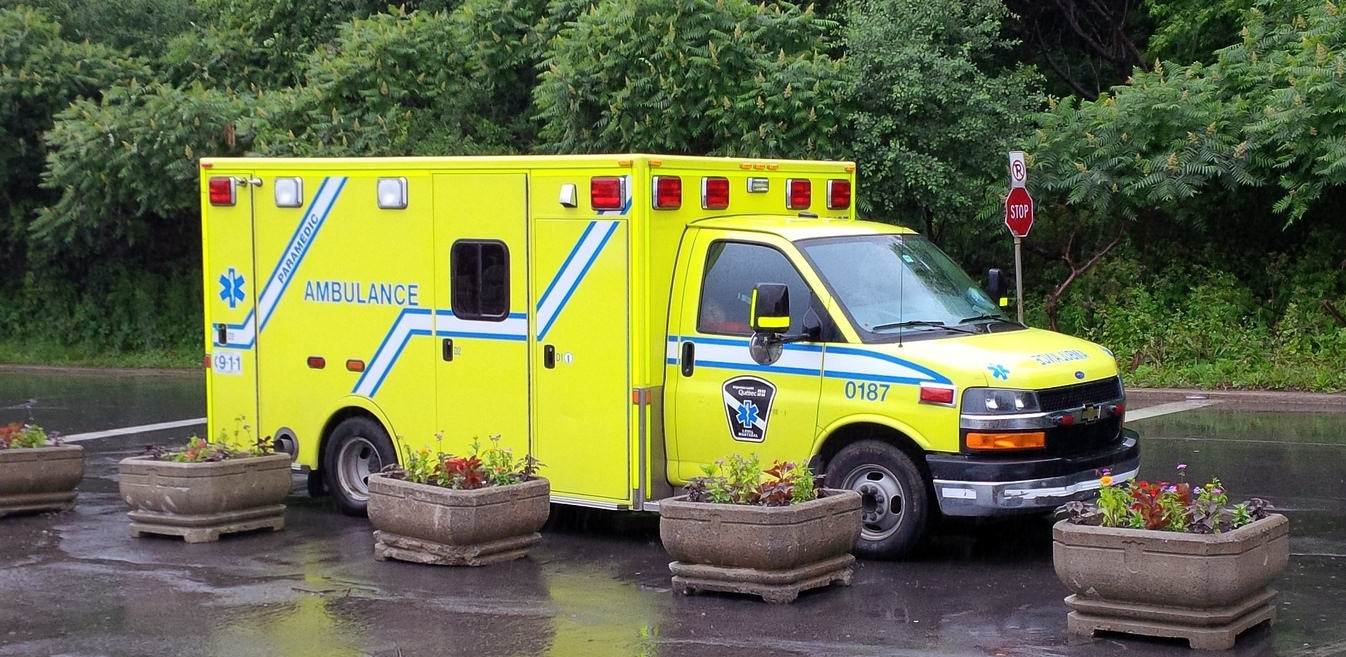 An Urgences-santé ambulance near the Mount Royal summit in Montreal